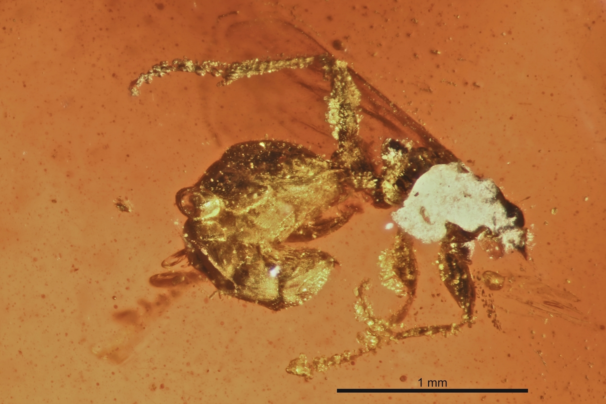 Closeup of the Burmomyrma rossi holotype profile. Specimen BMNHP19125